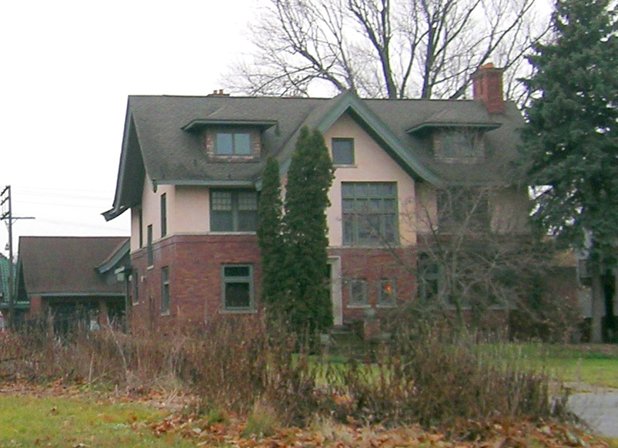 House in Arden Park-East Boston for use in APEB article.